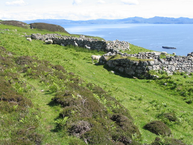 Grulin Iochdrach Ruins of the township at Grulin Iochdrach. 14 families were cleared from Grulin in 1853 to make way for sheep. Most emigrated to Nova Scotia. An Iron Age Dun lies on the coastal side of the ruins, beyond the right edge of the picture